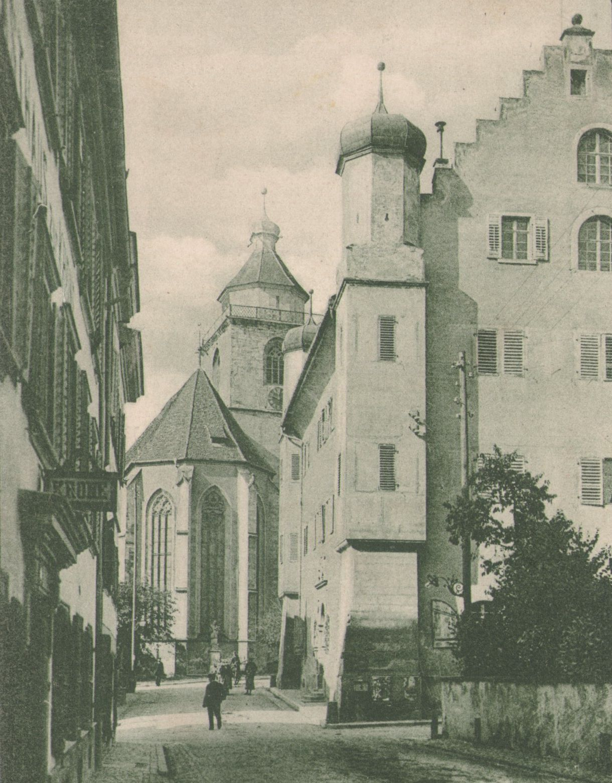 Main church of Radolfzell, former tower, 1900.